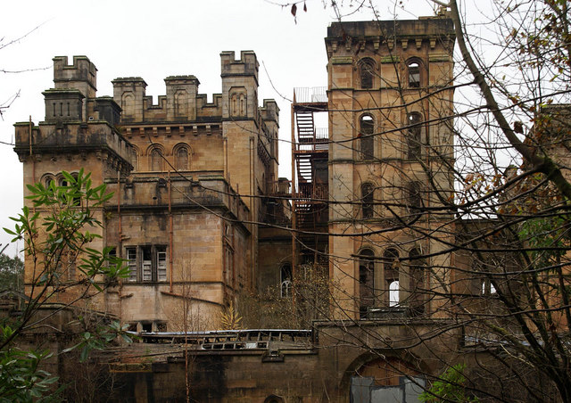 Lennox Castle Initially the home of the Earl and Countess Lennox, this Norman style castle and surrounding land was transformed into Lennox Castle Hospital where people with learning disabilities were cared for. The hospital closed around 2001 and the wards demolished. Lennox Castle itself has been derelict for around fifteen years.